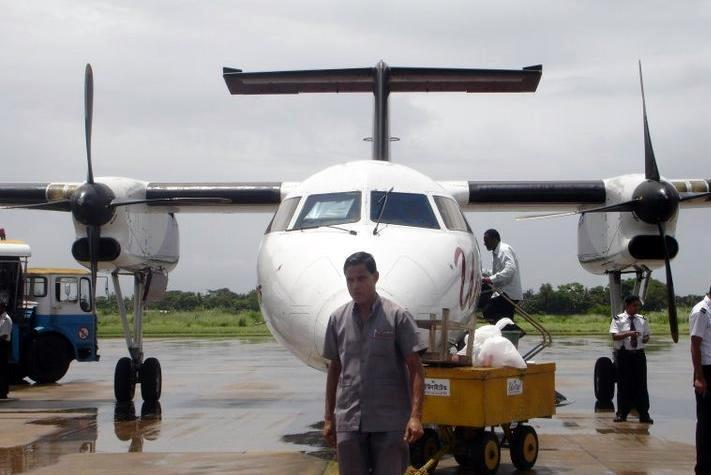 An United Airways Dash 8 before boarding, at Shah Amanat International Airport, Chittagong, Bangladesh.